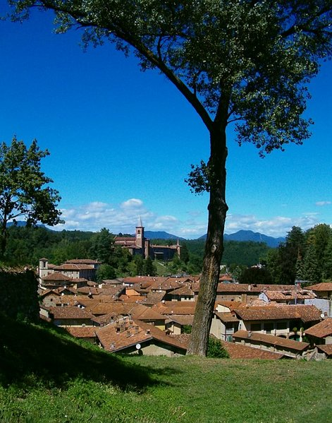 Castiglione Olona Picture taken by user:Idéfix, august 2004